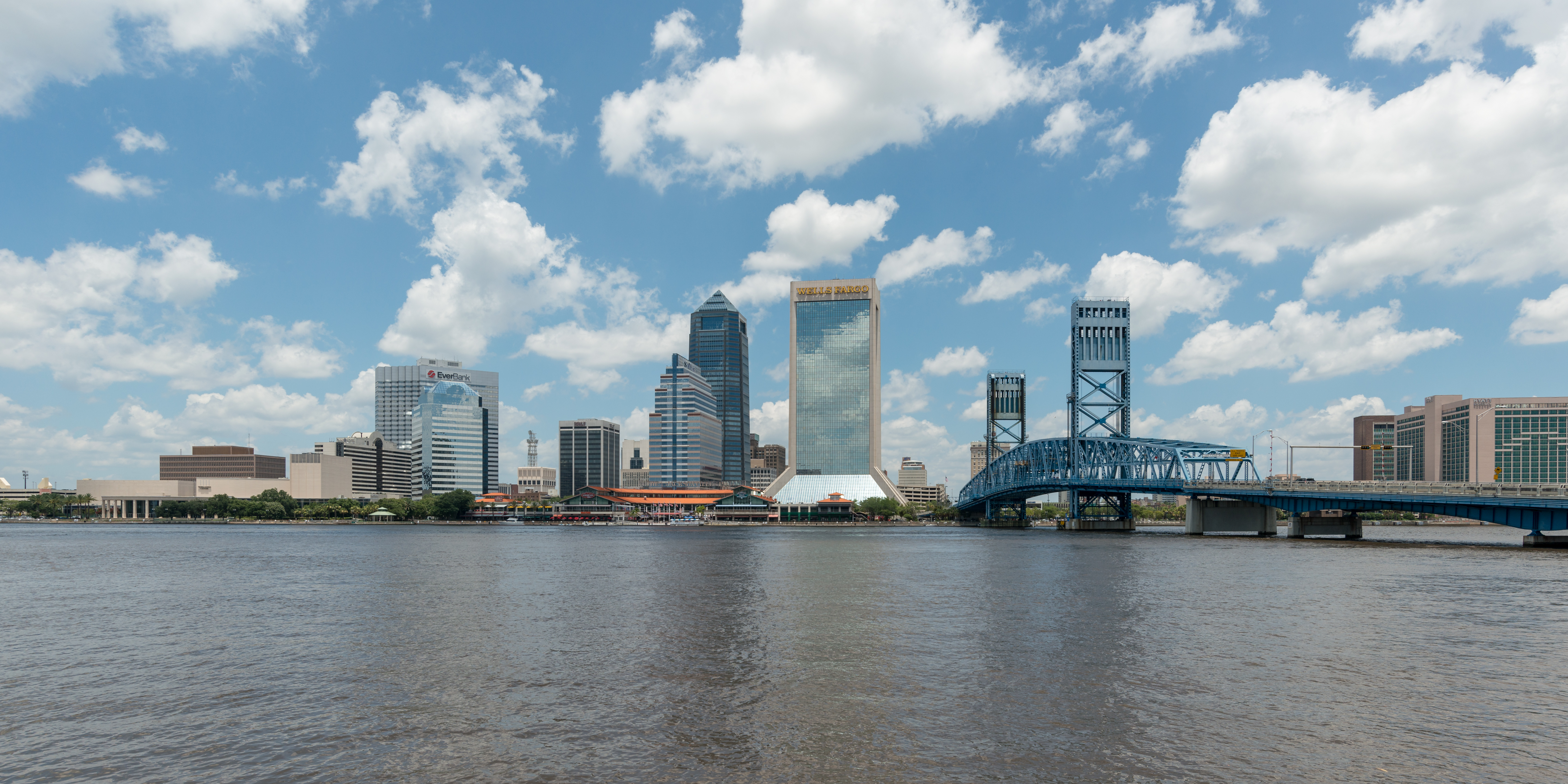 A south view of the skyline of Jacksonville, Florida